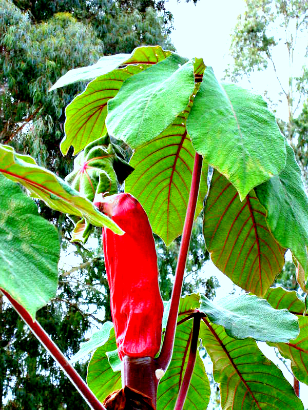 Flores.